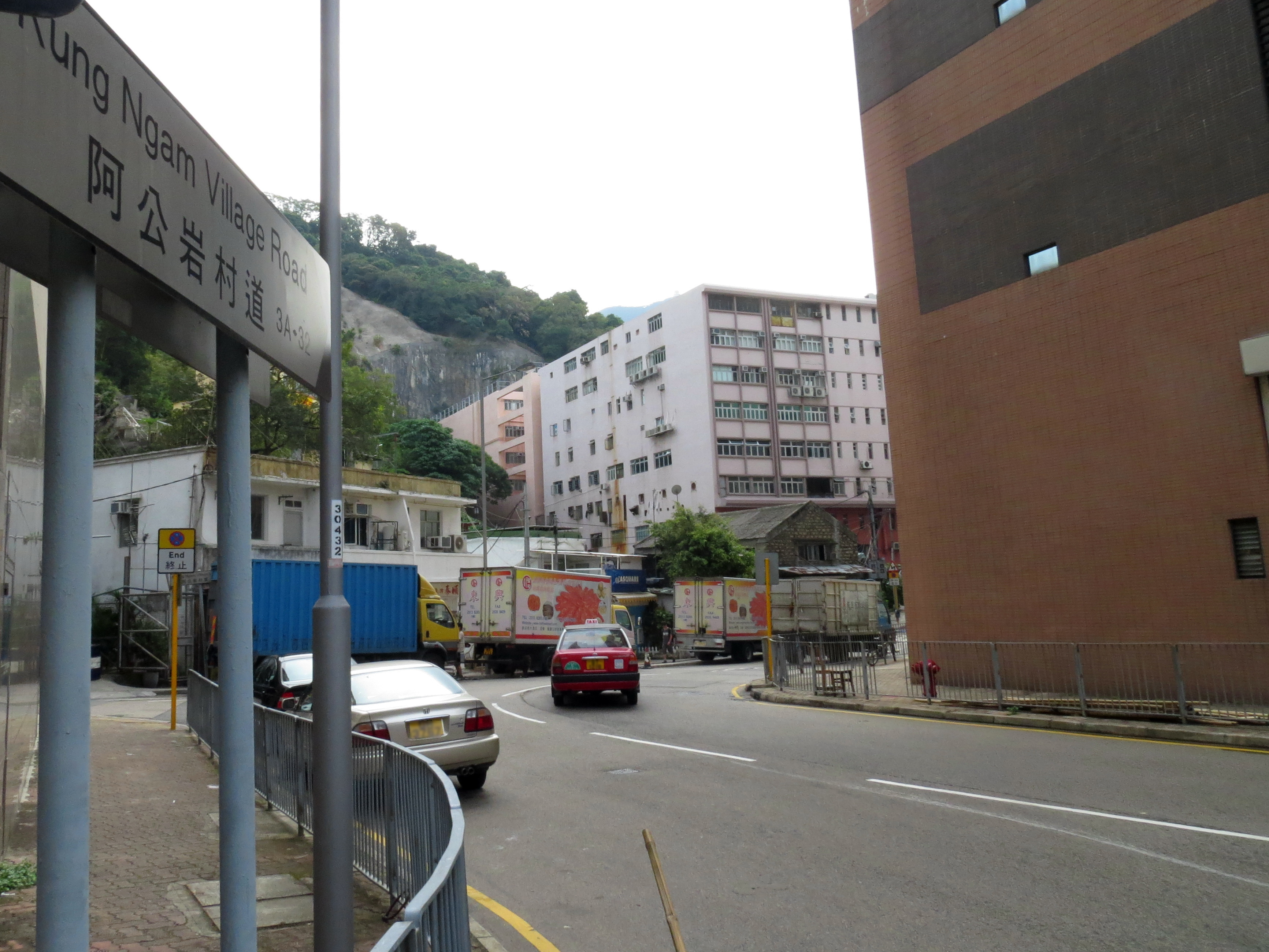 A Kung Ngam Village Road, Shau Kei Wan, Hong Kong.